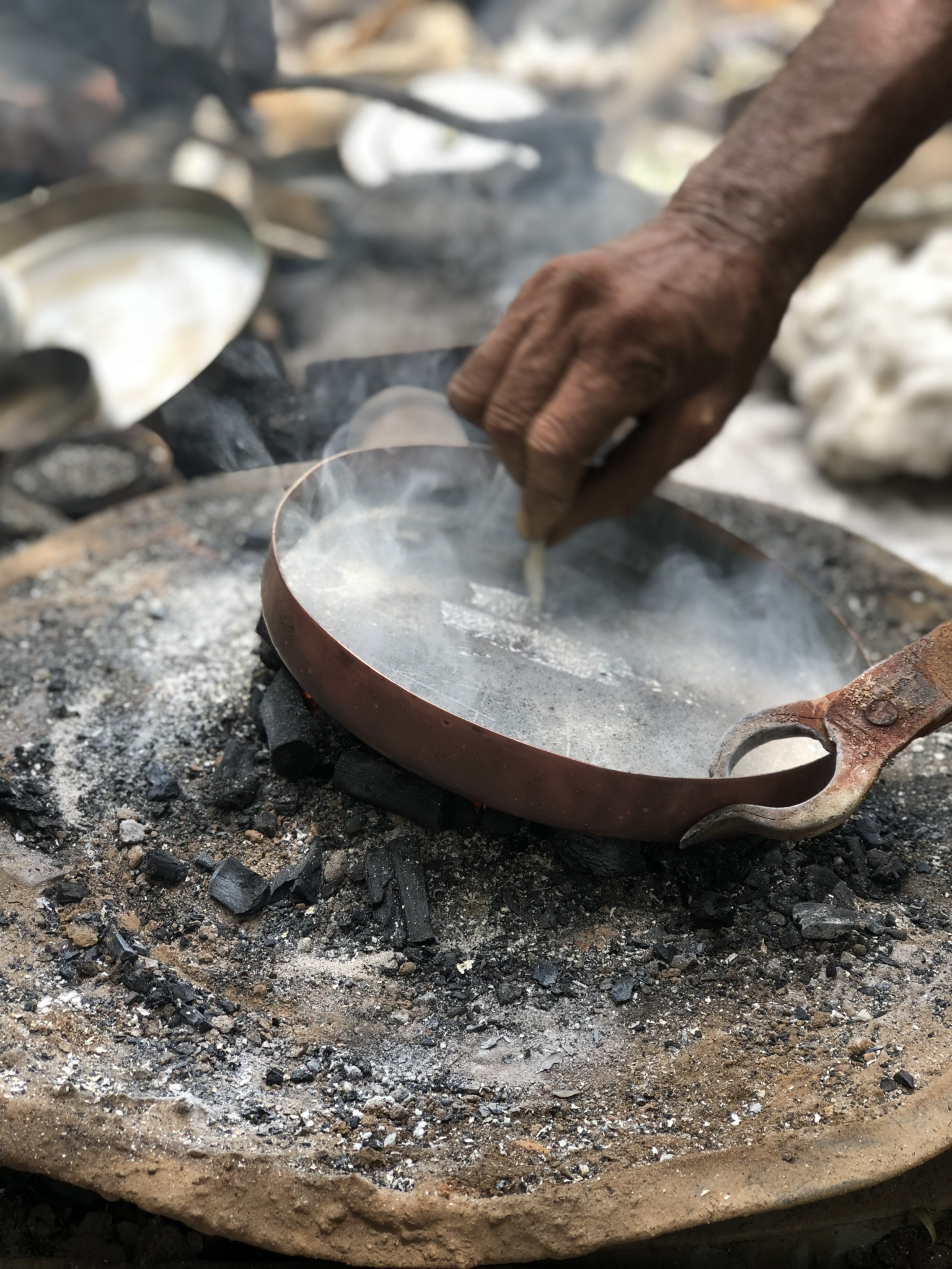 The is the picture of a person doing Kalai. Kalai is the art of coating vessels with tin.